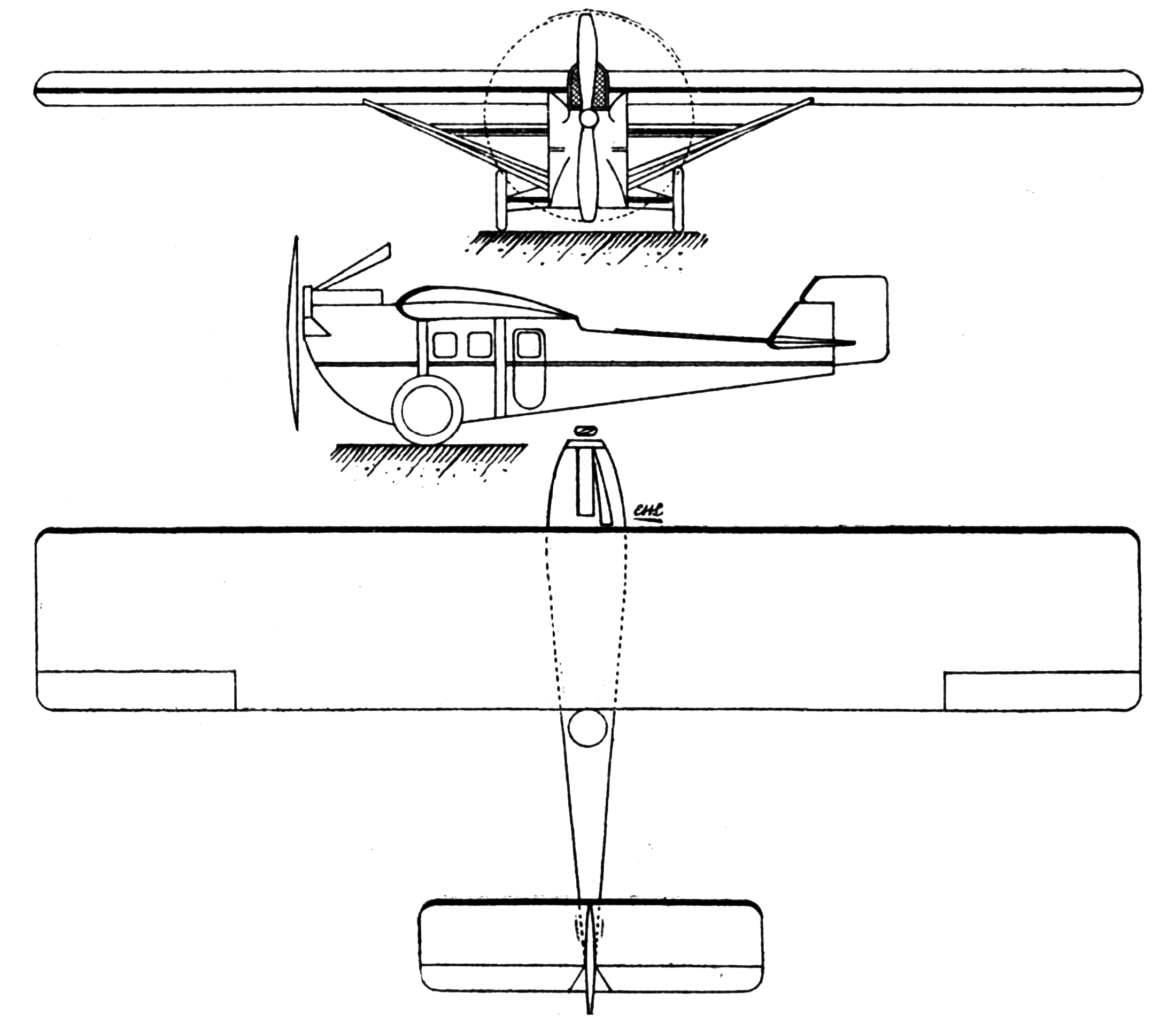 Dornier Do.C III Komet I 3-view drawing from Les Ailes August 11, 1921